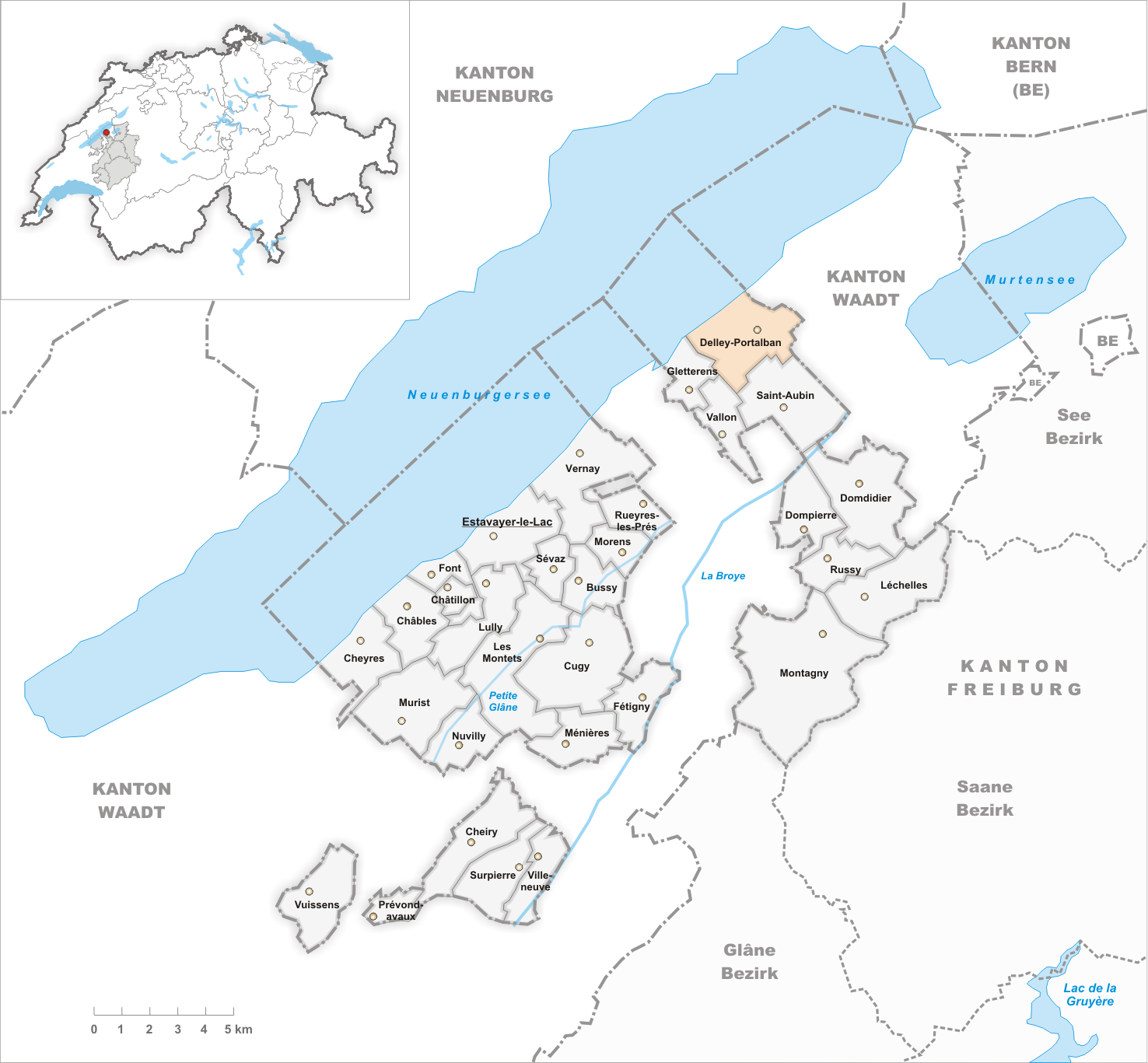 Municipality Delley-Portalban